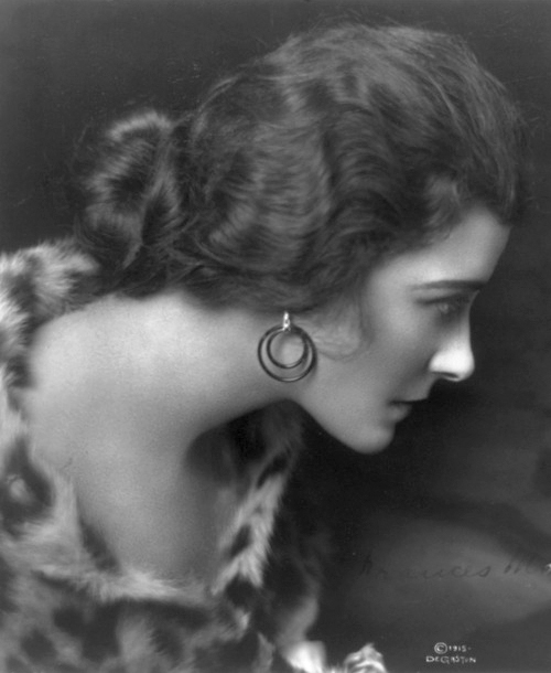 Screenwriter Frances Marion on page 57 of the December 1921 Photoplay.